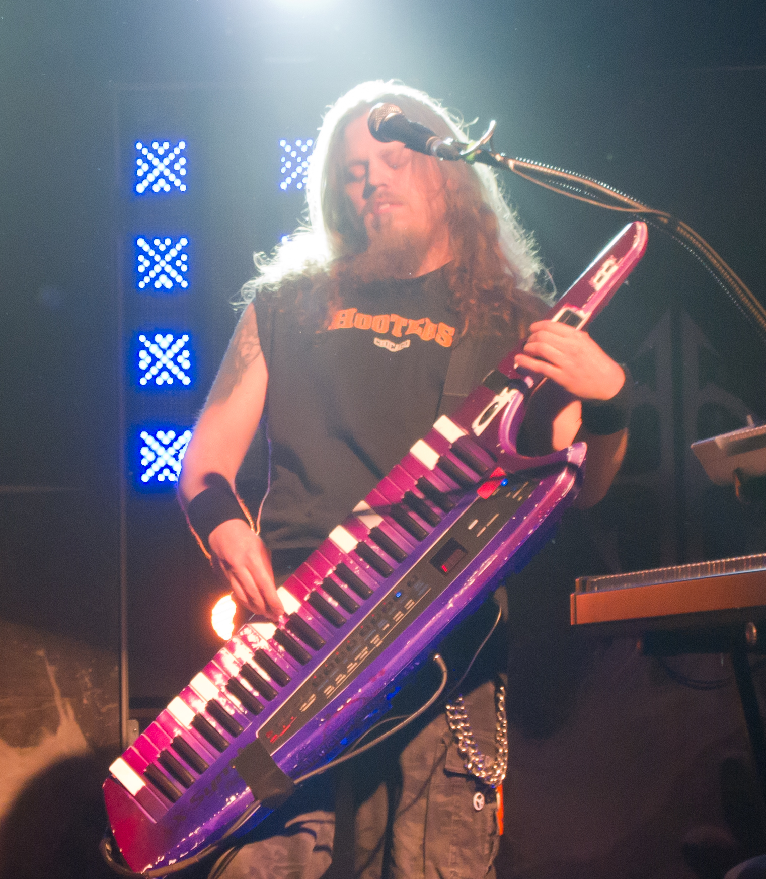 Henrik Klingenberg (Sonata Arctica) in concert.